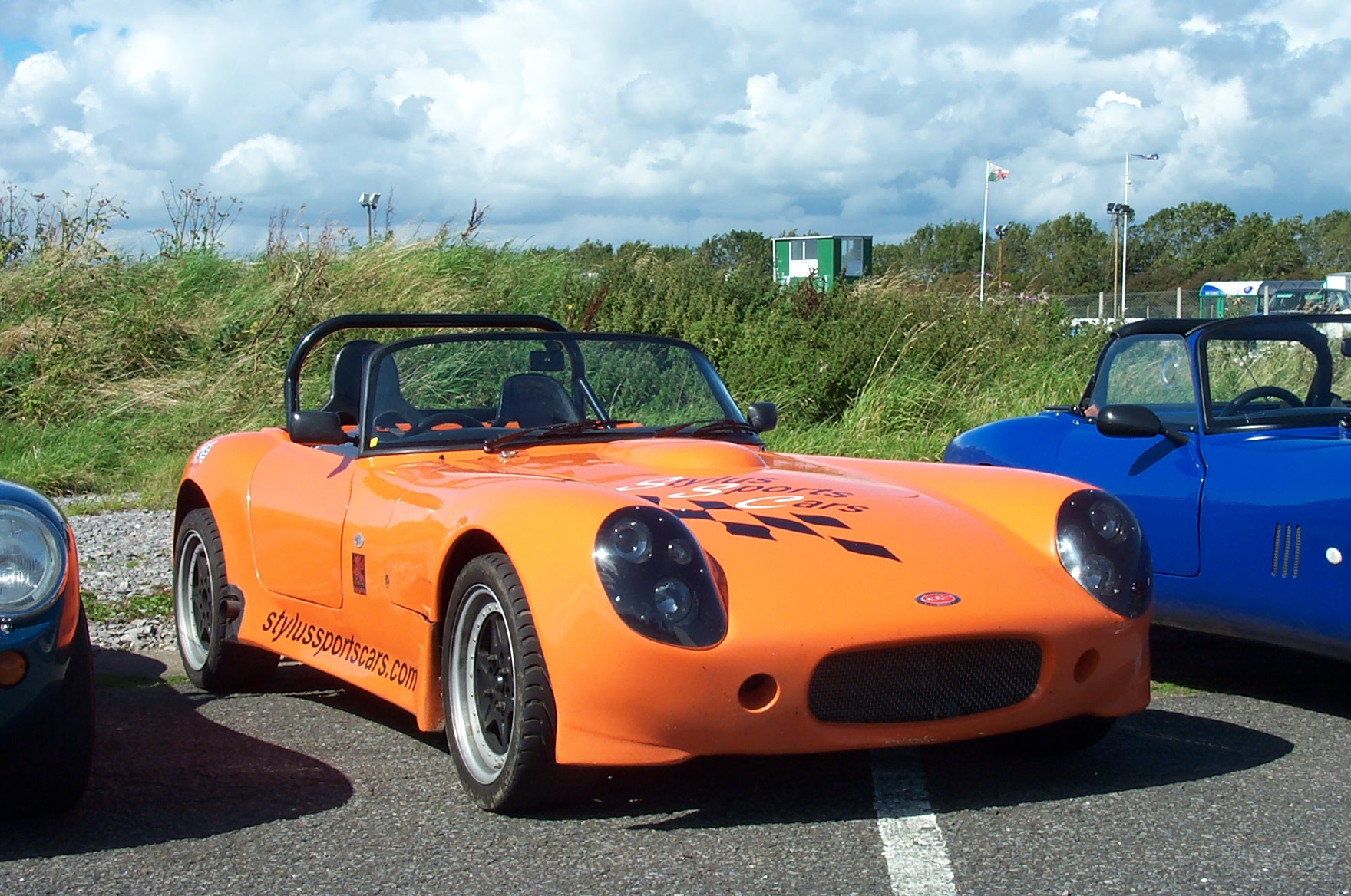 SSC Stylus RT